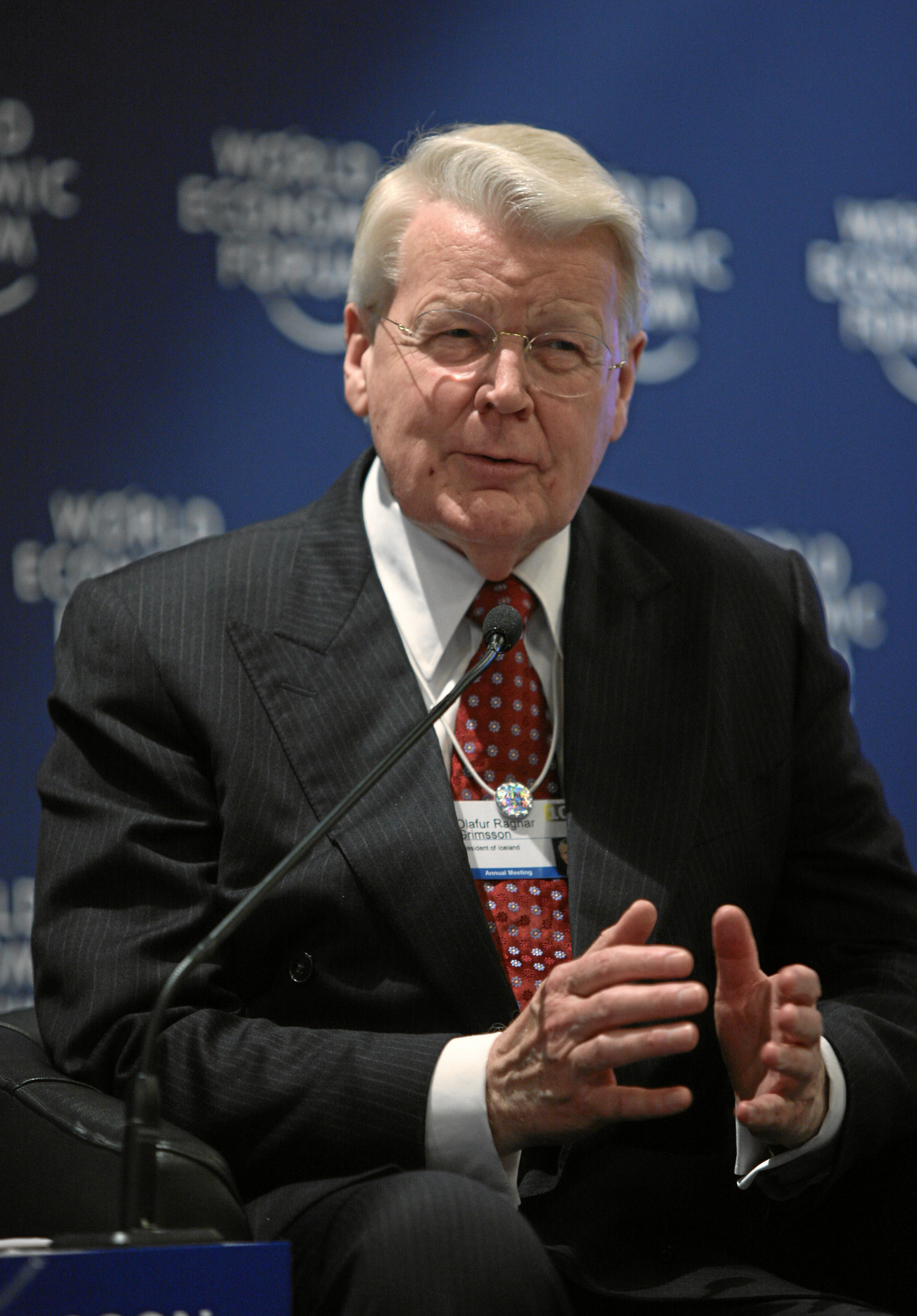 DAVOS/SWITZERLAND, 30JAN10 - Olafur Ragnar Grimsson, President of Iceland captured in the session 'Financial Risk Management 2.0?' of the Annual Meeting 2010 of the World Economic Forum in Davos, Switzerland, January 30, 2010.